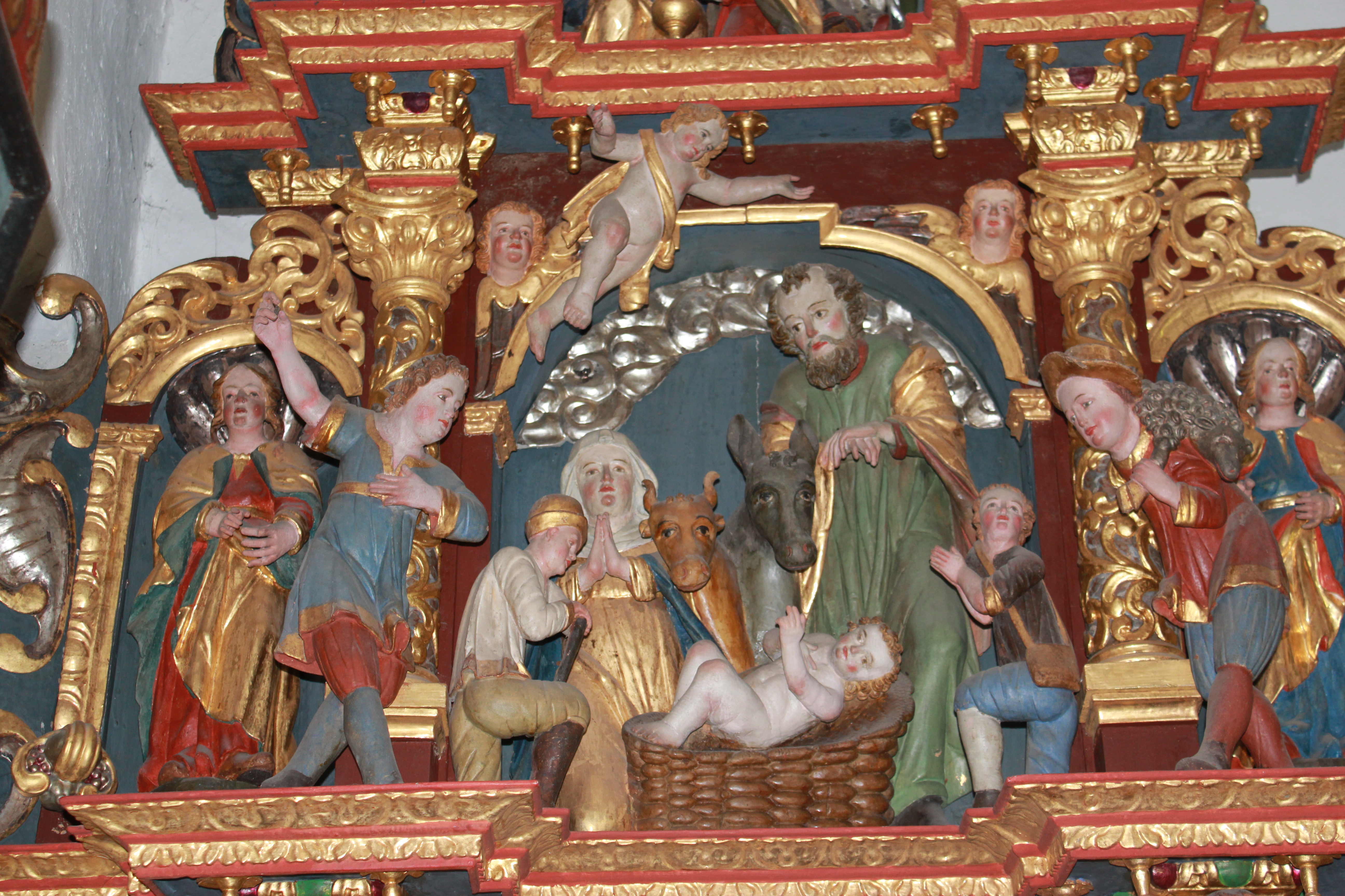 Church of St Georgen in the community of Bleiburg - side altar - detail